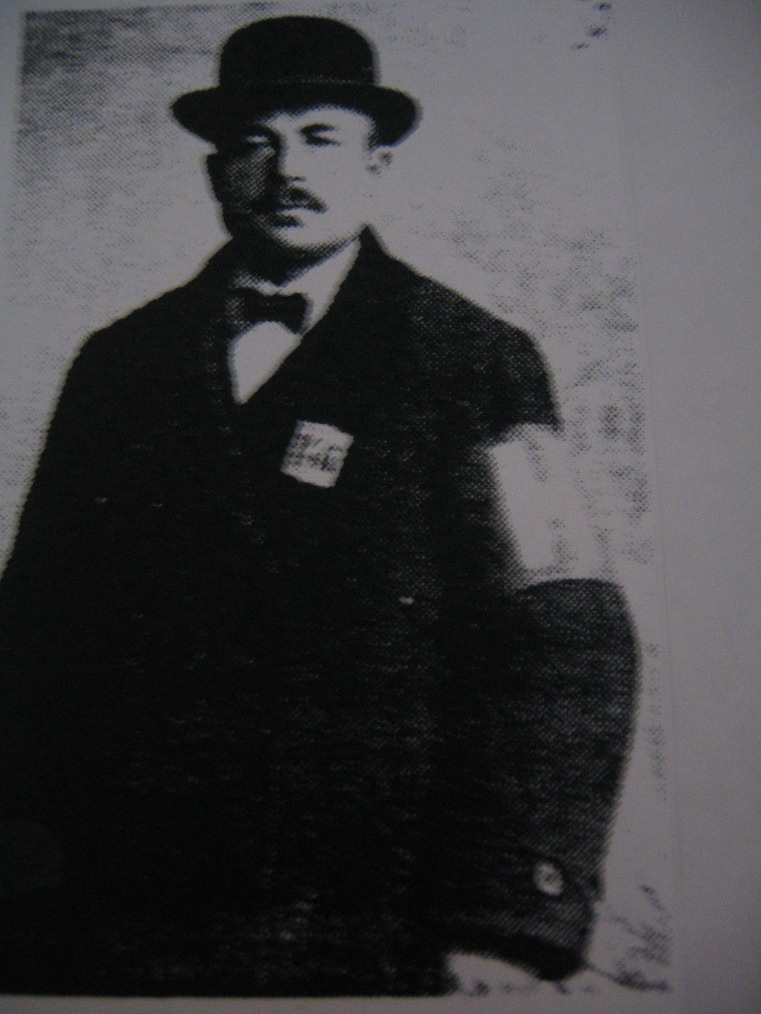 Finnish red guard leader and communist Kustaa Rovio